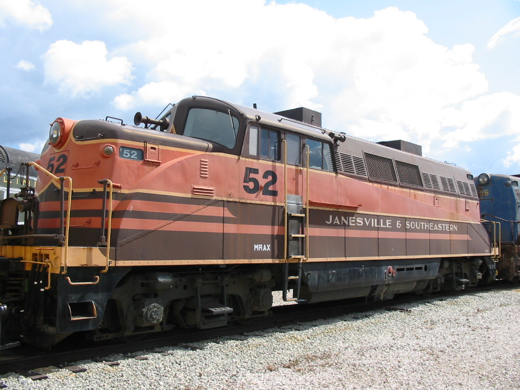 Janesville & Southeastern #52 on display at the National Railroad Museum, Green Bay, April 26, 2004. Photo by Sean Lamb (User:Slambo).